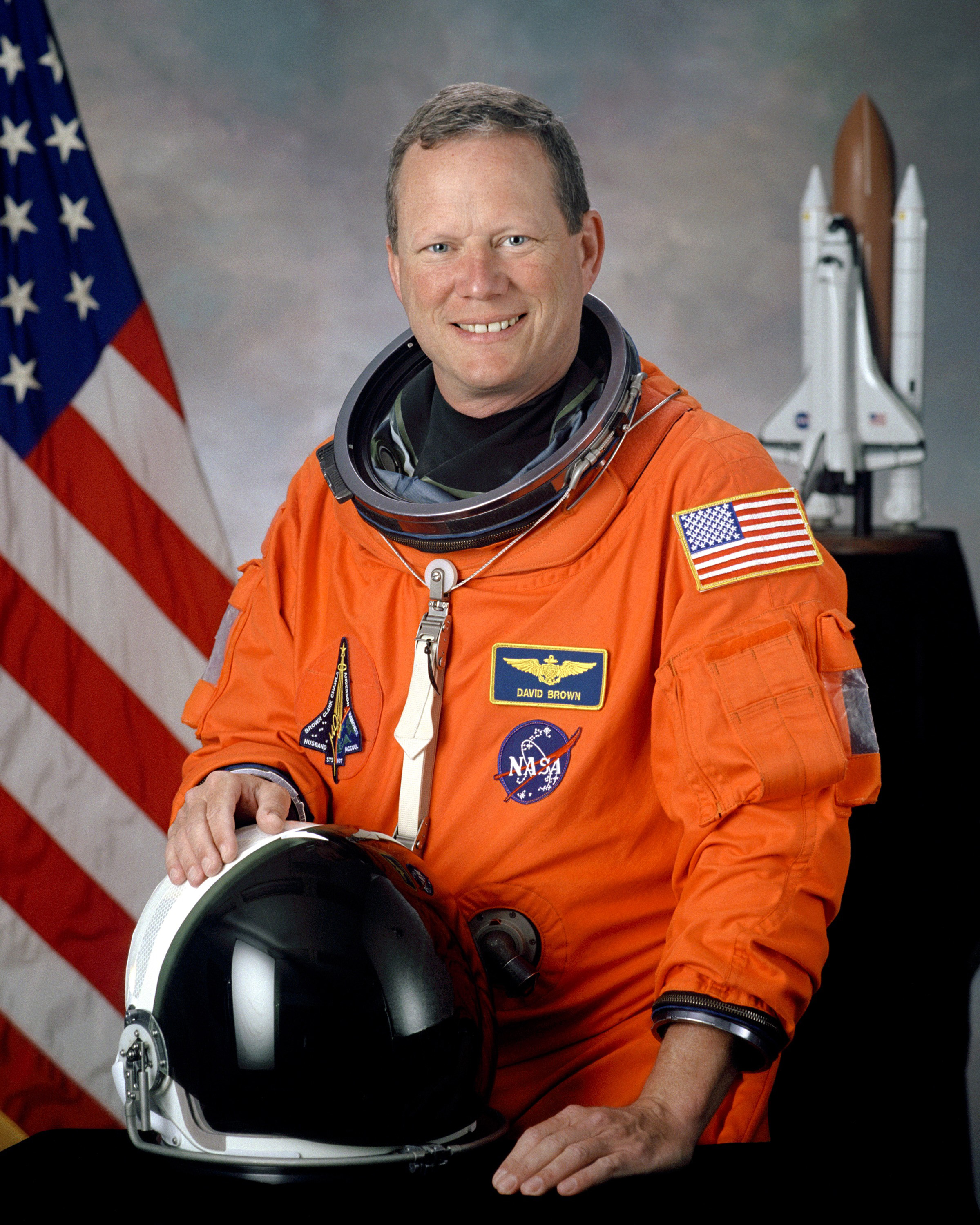 David M. Brown, American astronaut who died during the failed re-entry of Space Shuttle Columbia.